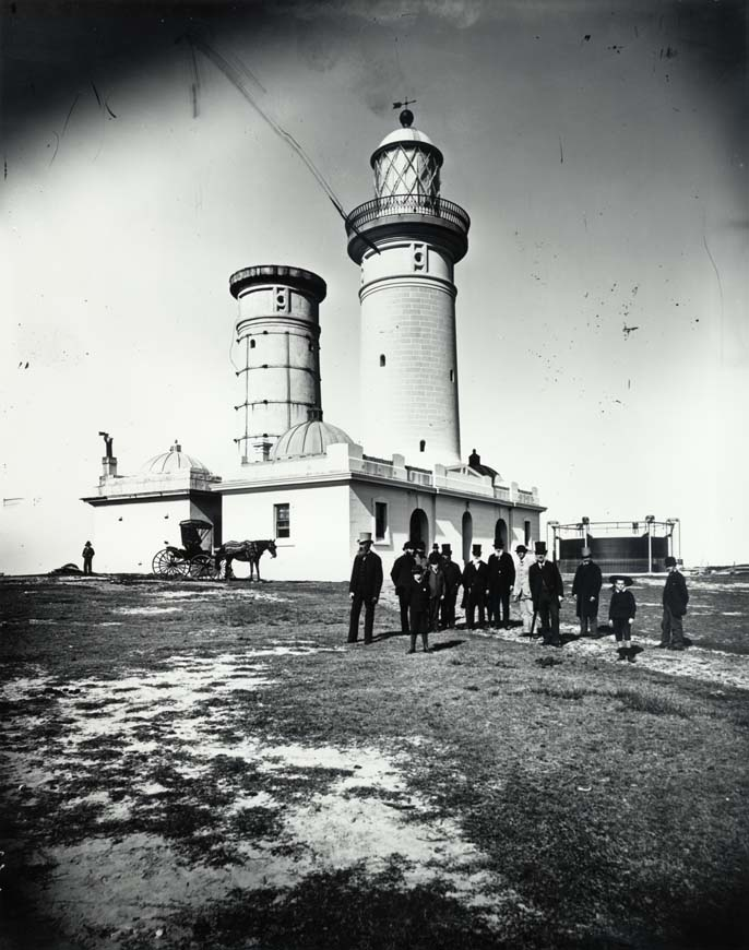 Macquarie Lighthouse, old and new side by side. The lantern already removed from the old tower